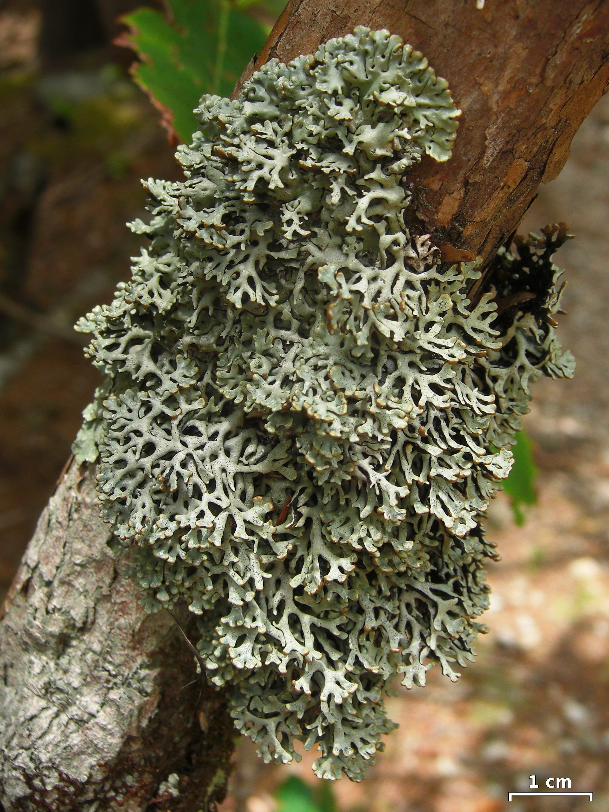 Appalachian Trail between Low Gap and Snakeden, Smokies, North Carolina border, 20110524